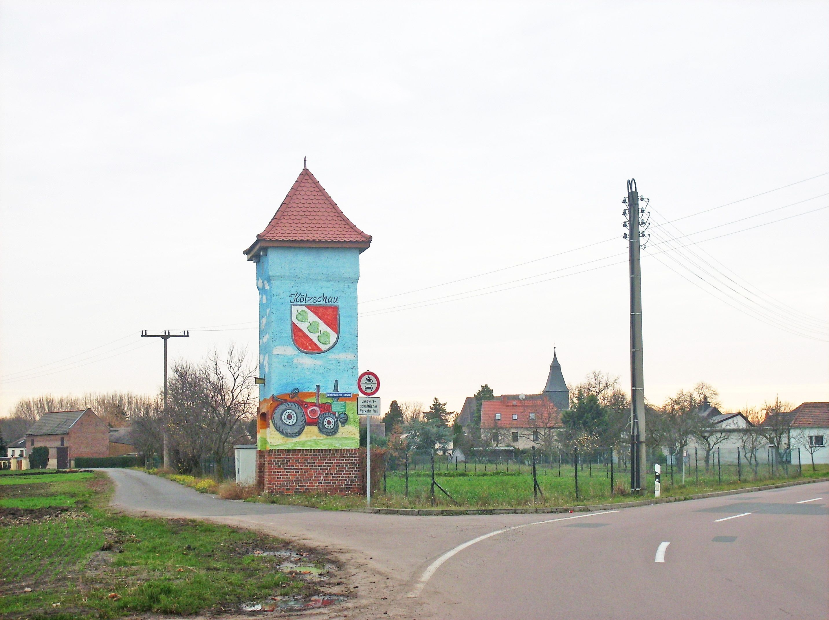 Northern entry to the village of Kötzschau (Leuna, district of Saalekreis, Saxony-Anhalt)